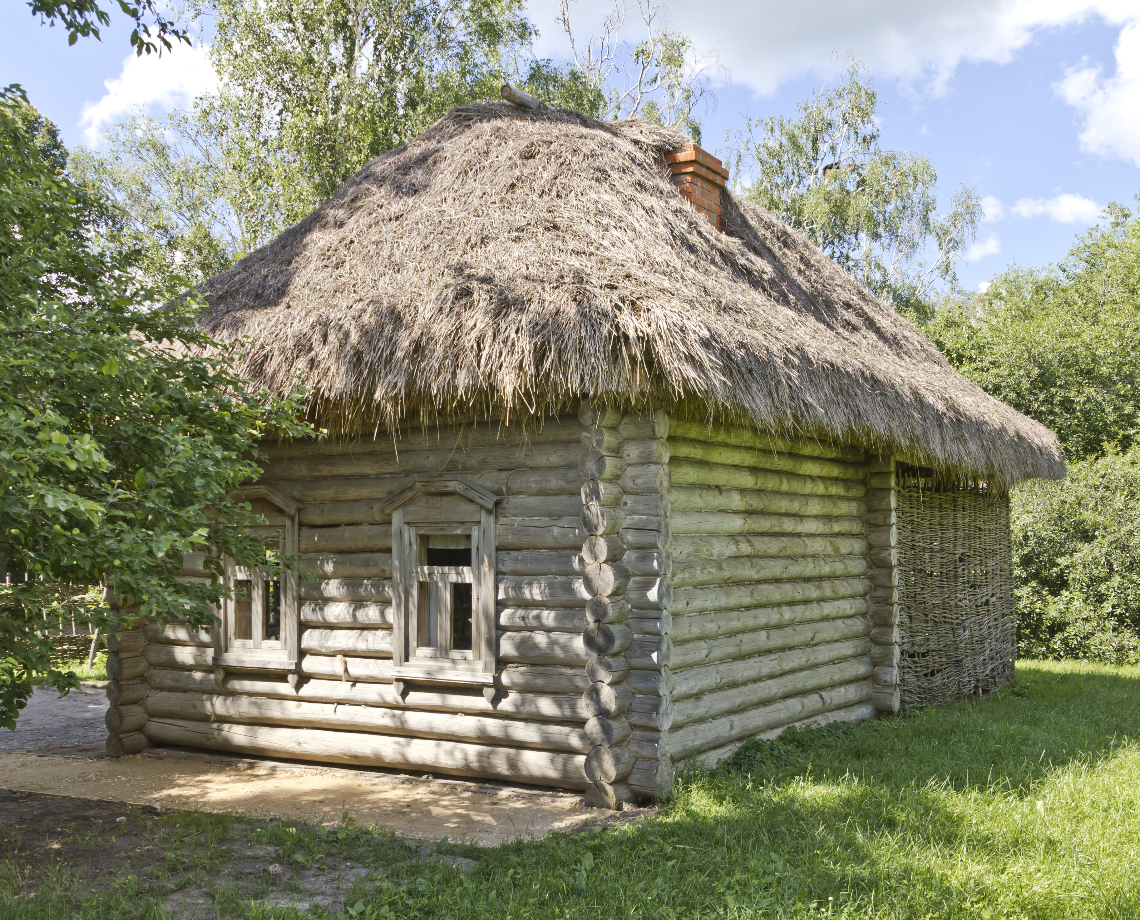 Museum of poet Sergei Yesenin in Konstantinovo village, Ryazan Oblast, Russia – log house